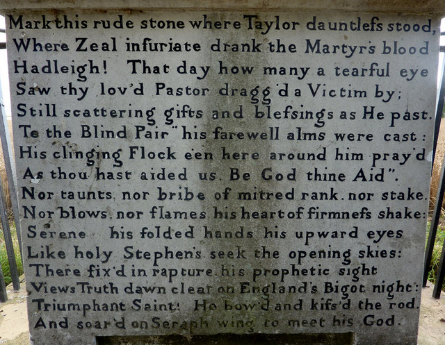 Taylor monument inscription. Rowland Taylor was burnt at the stake here for his faith as Queen Mary sought to impose the counter-reformation on the country by force. See 1438582 for a view of the memorial.